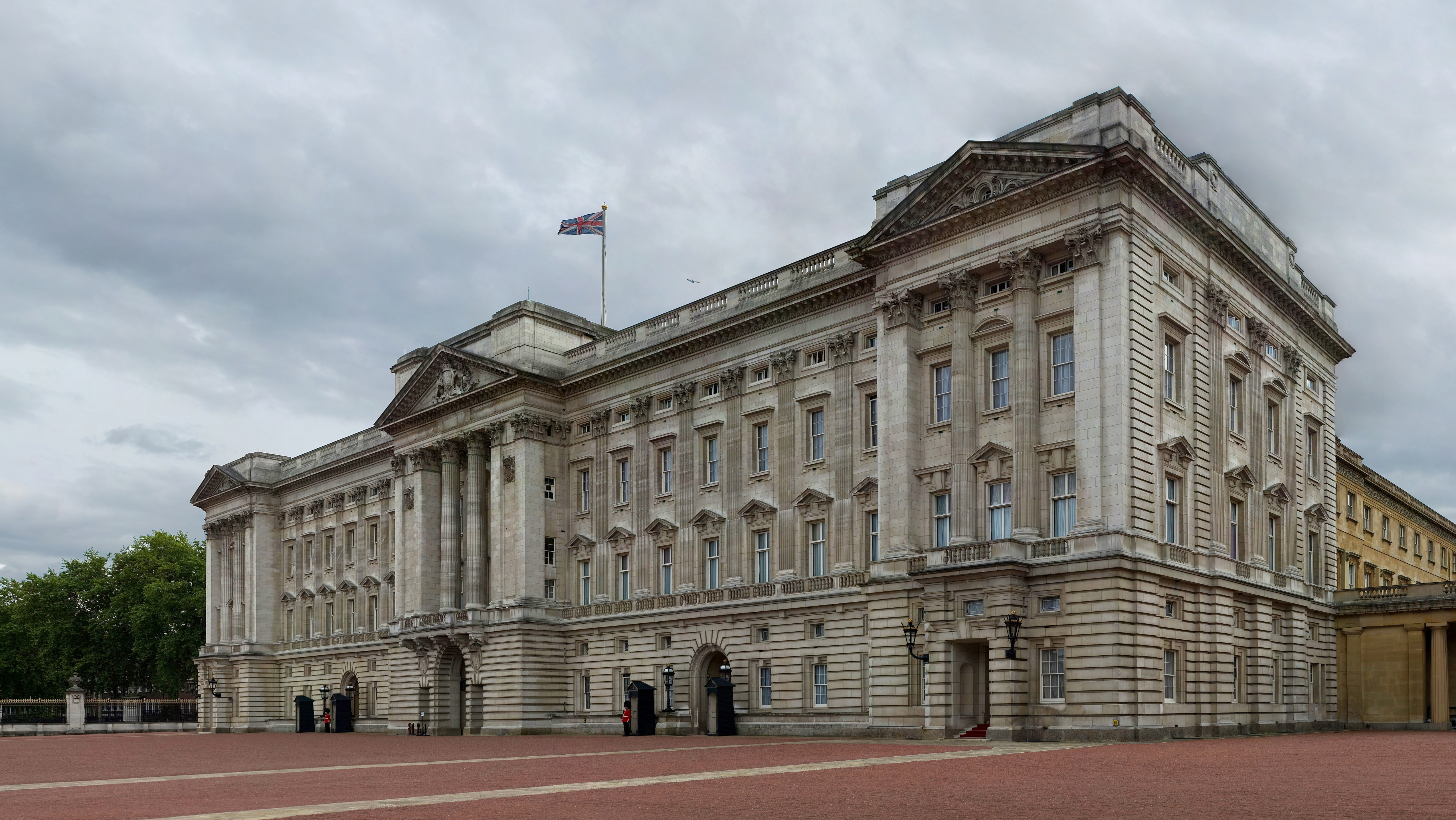 A 4 x 7 segment mosaic of Buckingham Palace, London. Taken by myself with a Canon 5D and 85mm f/1.8 at f/5.6, ISO 100, 1/200s exposures.